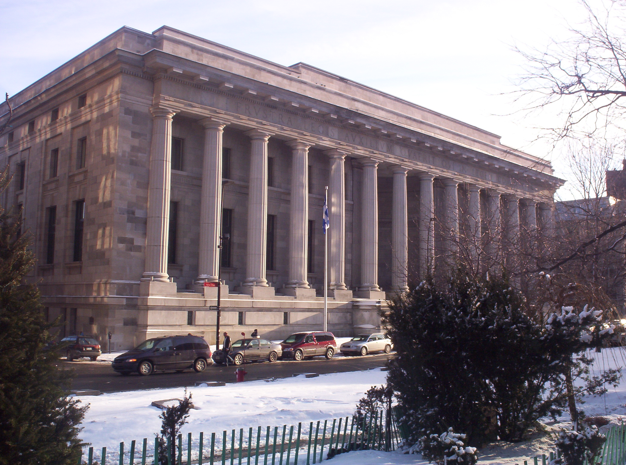 The Ernest Cormier Building, the seat of the Quebec Court of Appeal in Montreal, Canada.